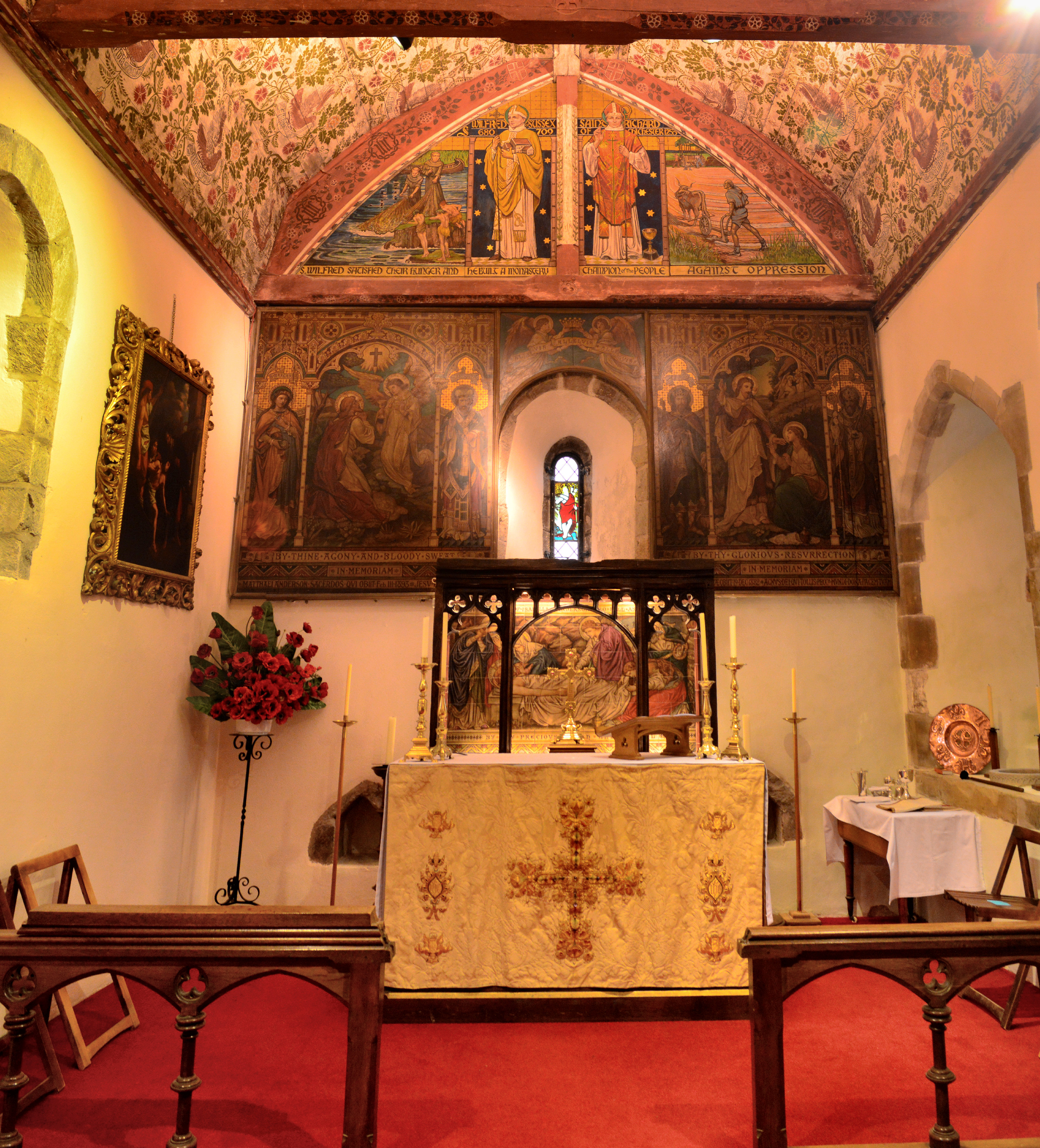 Ovingdean, St Wulfran's Church, Chancel and altar